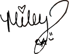 Miley Cyrus' signature